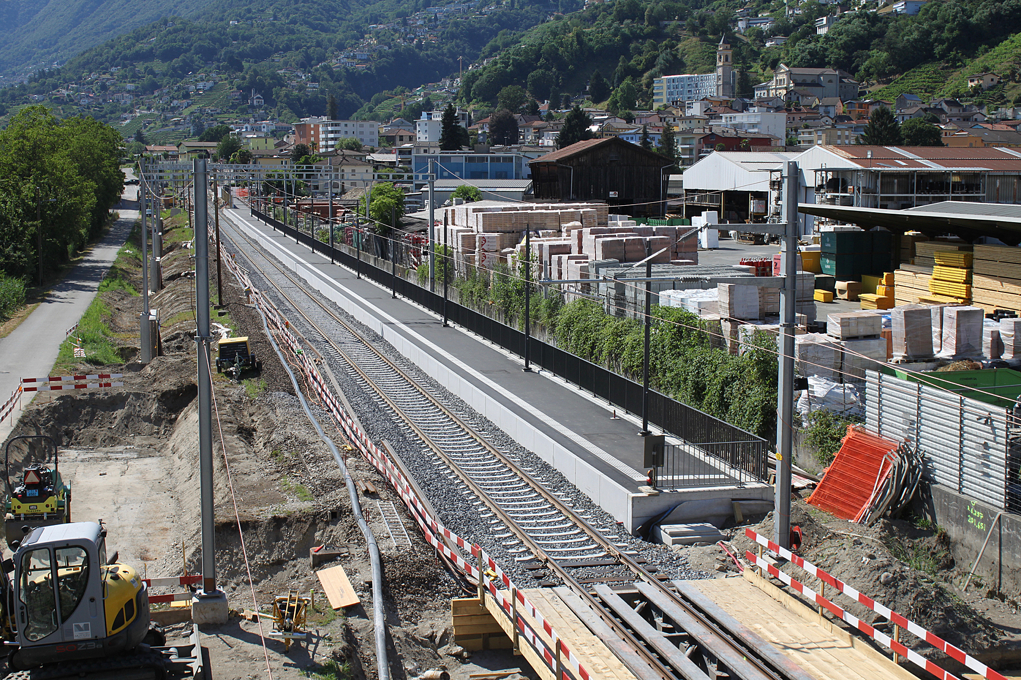 New Gordola railway station, opened on July 2nd, 2019.